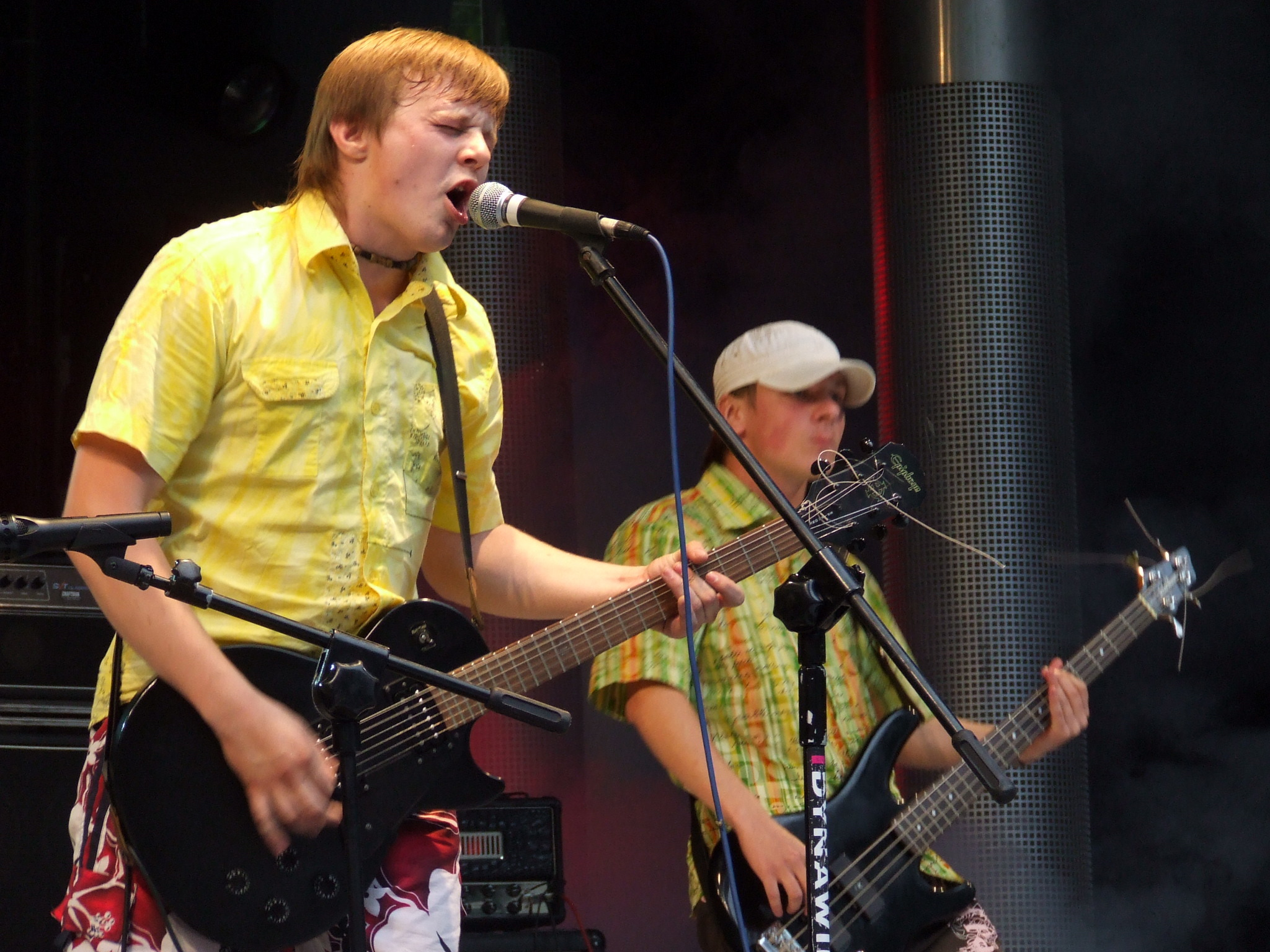 Ściana at Basovišča Festival 2008